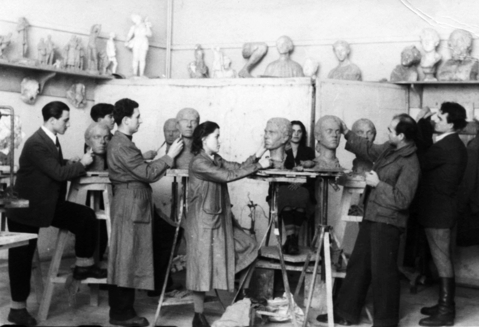 National Academy of Arts (Sofia, Bulgaria), sculpture atelier of Ivan Funev, December 1949